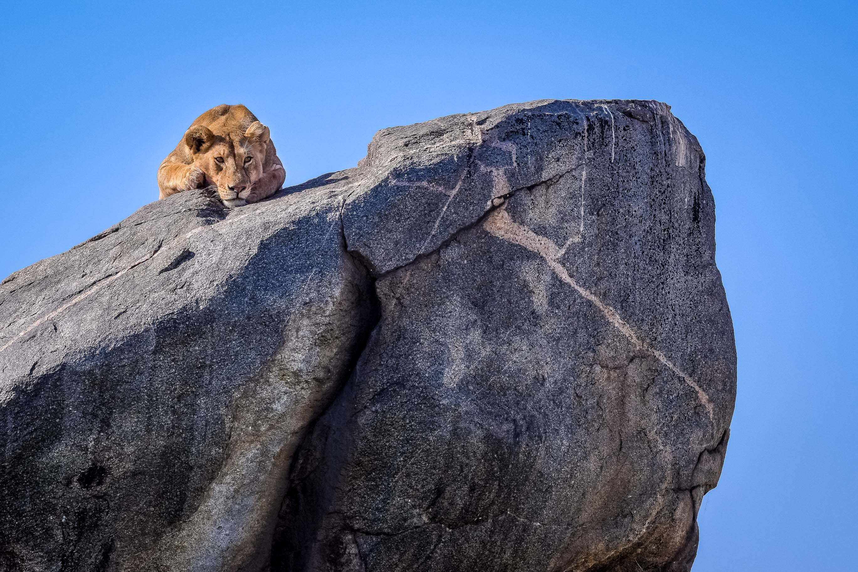 lion, serengeti, kopje, savannah